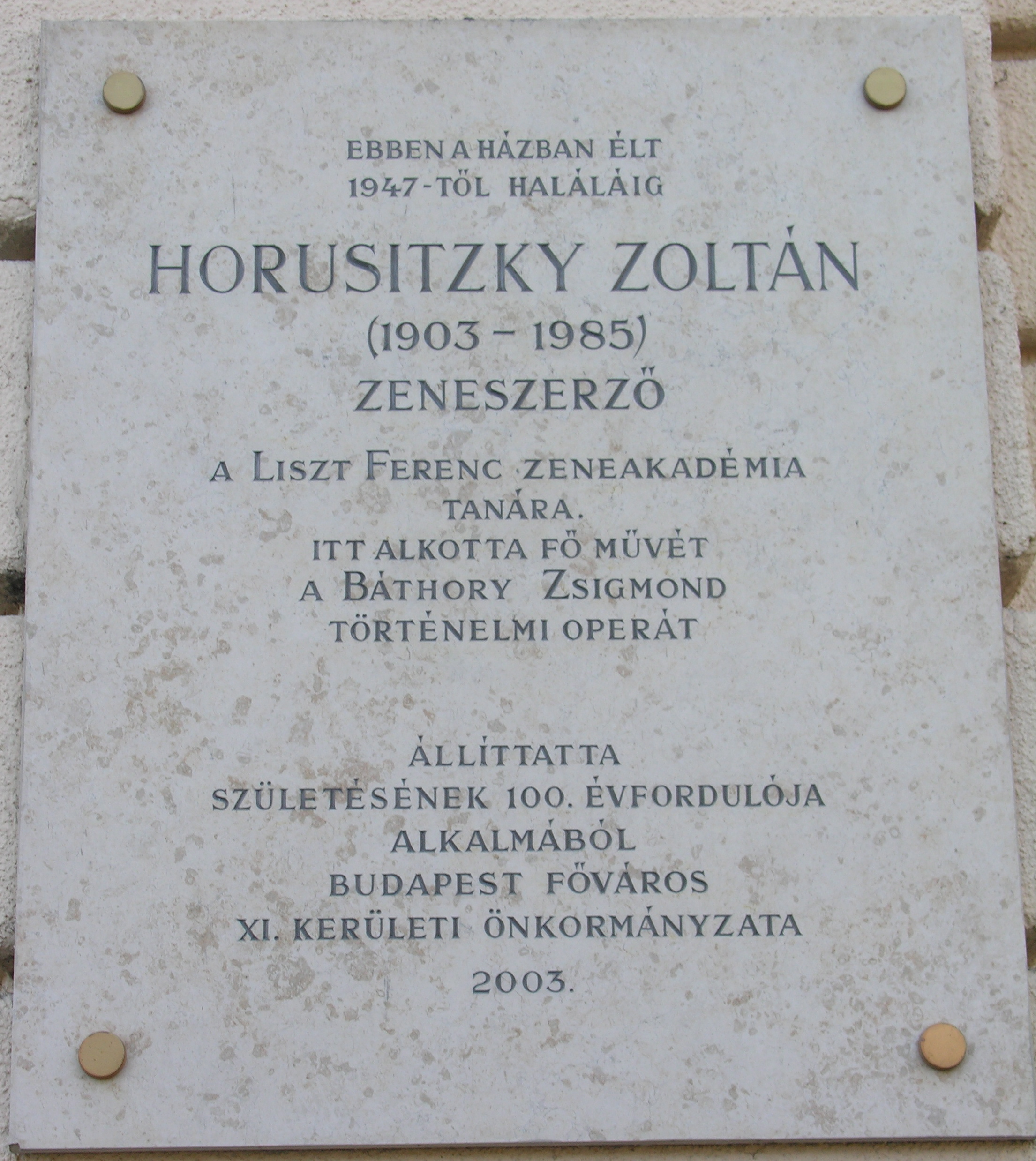 Commemorative plaque of Zoltán Horusitzky in Budapest District XI, Szent Gellért Square No 3